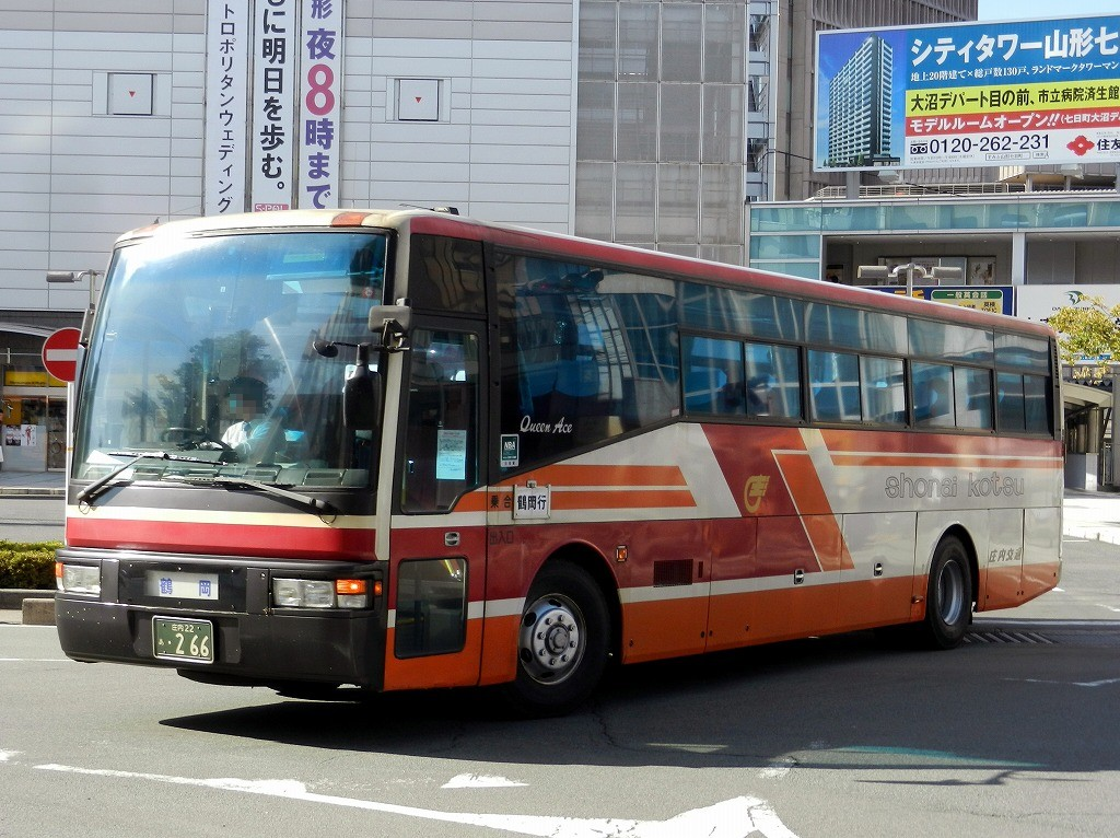 Shonai Kotsu Mitsubishi Fuso U-MS726S(FHI 7E body,old color)Highwaybus "Tsuruoka-Yamagata"